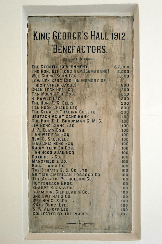 1912 plaque commemorating the benefactors of the King George's Hall of the former Saint Joseph's Institution (now the Singapore Art Museum).